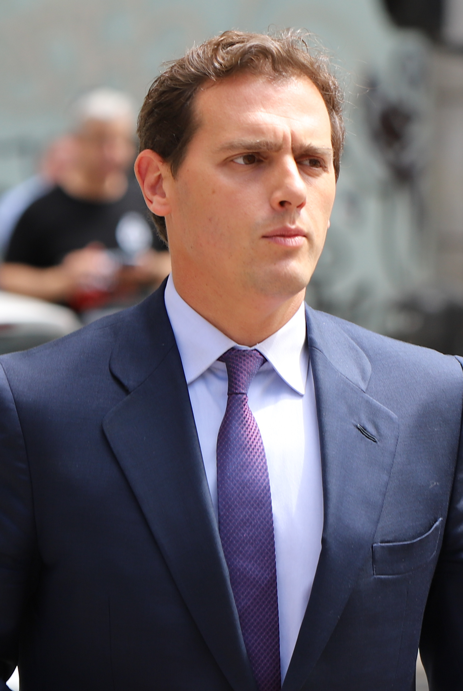 Albert Rivera near Parliament on the day of the first session of the newly elected Spanish Congress.